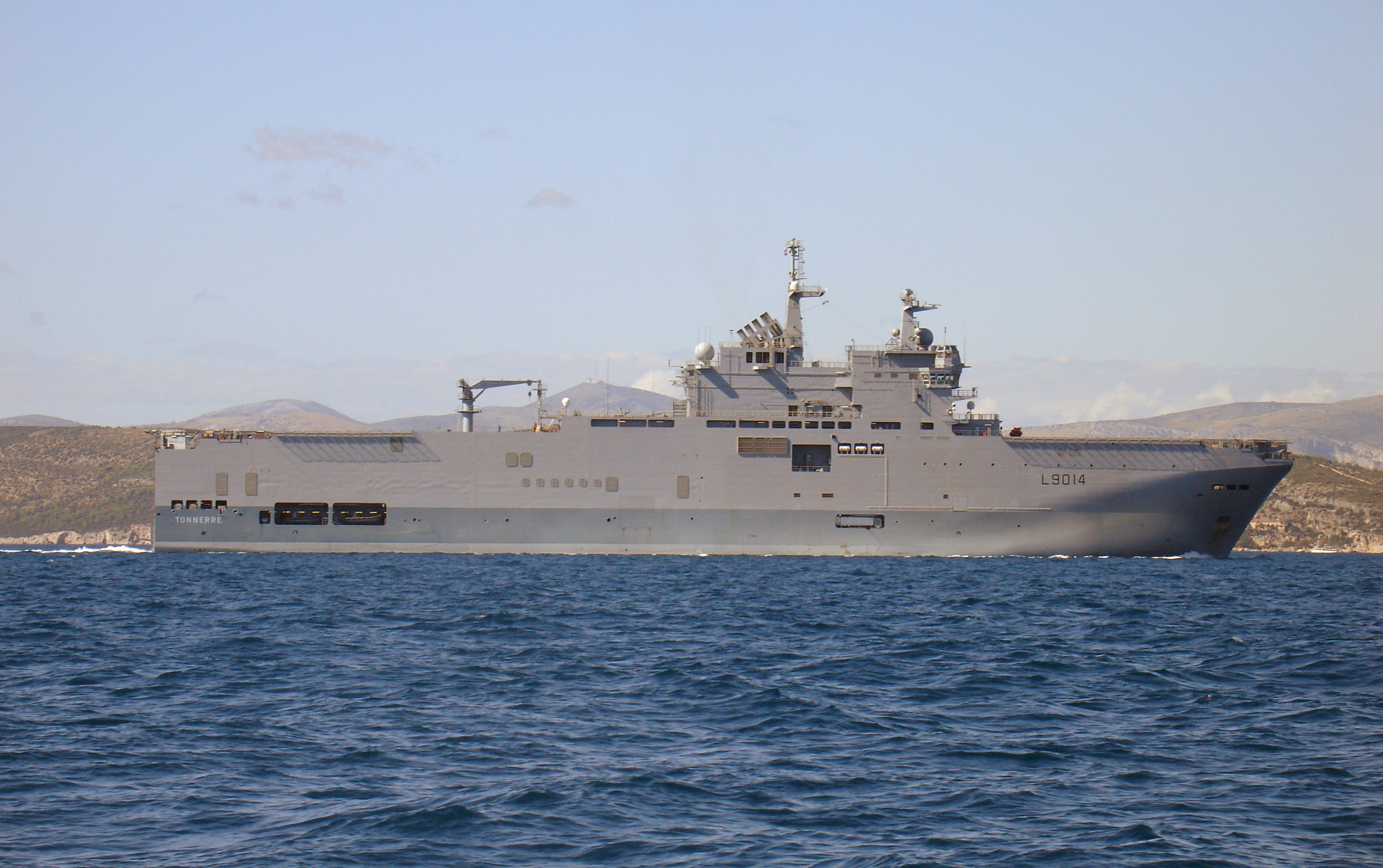 Tonnerre (L9014) - amphibious assault helicopter carrier of the French navy. Photo taken in 09-2007 on Adriatic.